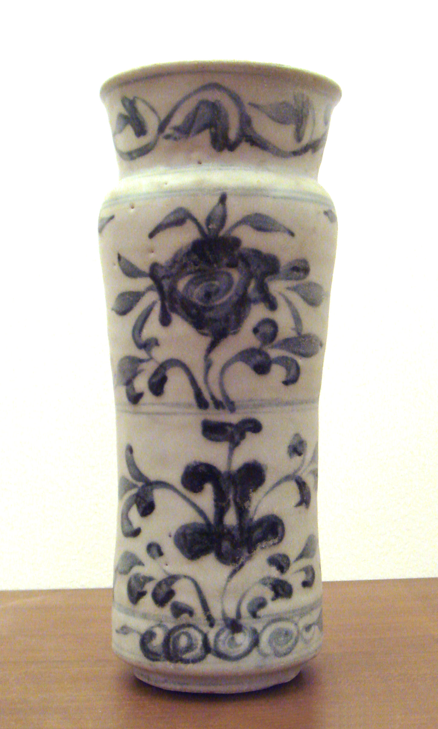 Swatow_porcelain_albarello_blue_and_white_Ming_before_1600